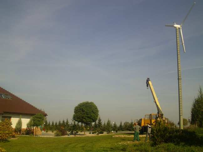 10kW Wind Turbine used as alternative energy source in Polish house.